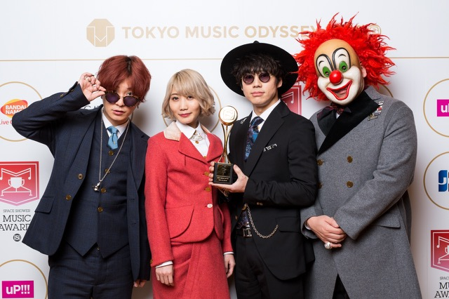 Image of the Japanese rock-pop band SEKAI NO OWARI members, used to serve as the primary means of visual identification at the top of the article dedicated to the work in question.